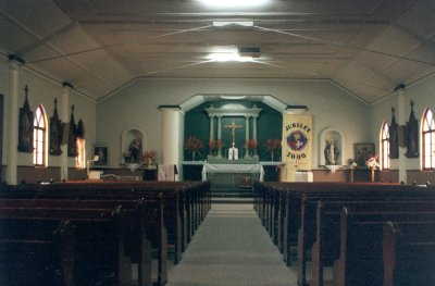 Our Lady of Pompeii Roman Catholic Church, Yoogali: Interior showing alter.